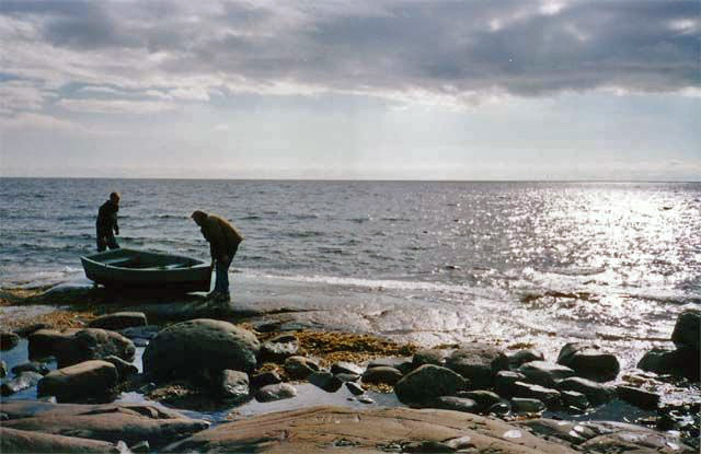 On the shore of the Kandalaksha Gulf